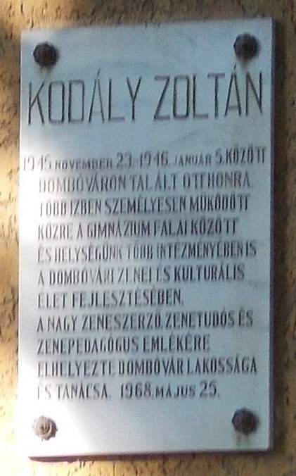 Illyés Gyula High School (Est. 1913?). Plaque of Zoltán Kodály. - 2 Bajcsy-Zsilinszkystreet, Dombóvár, Tolna County, Hungary